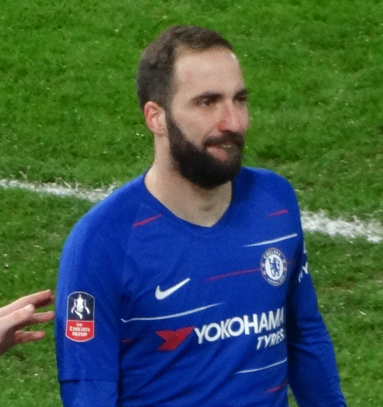 FA Cup 27.1.19